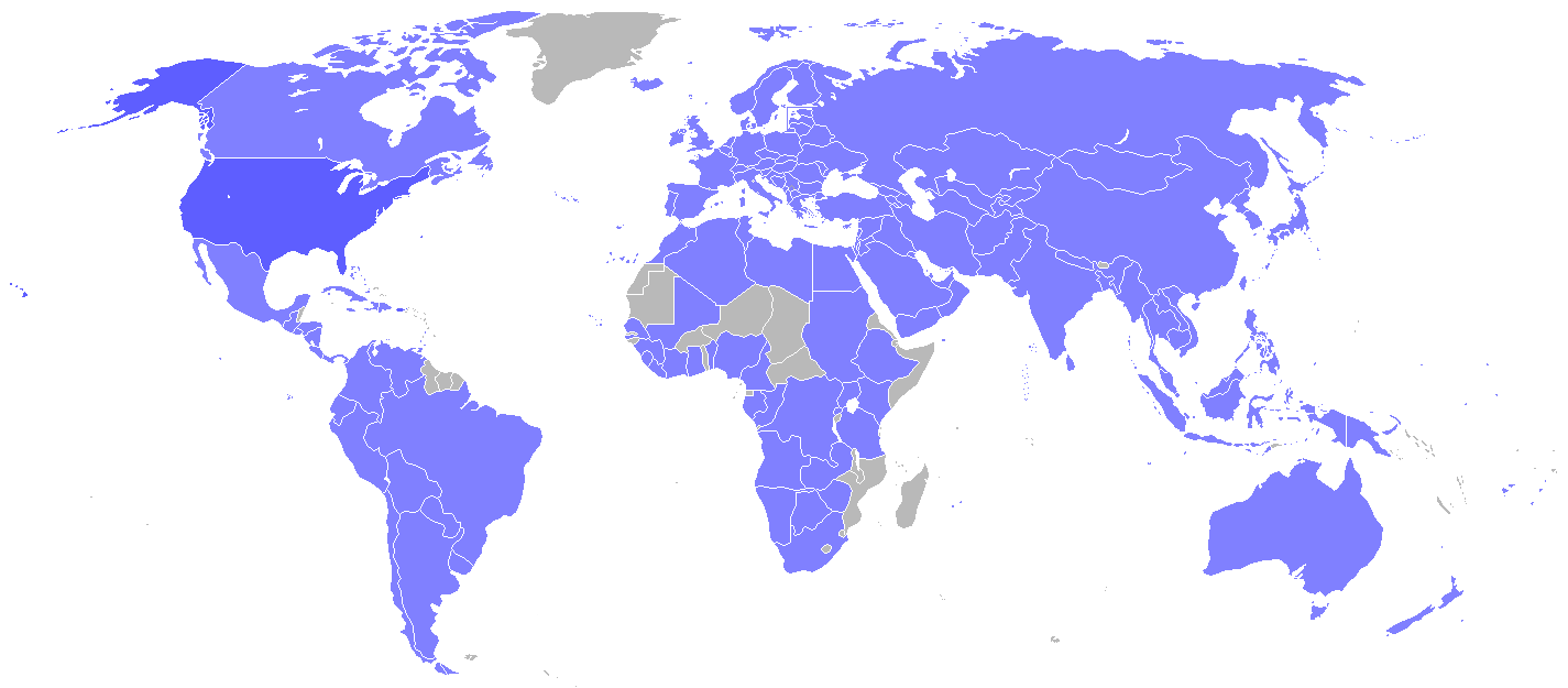 Travels of former State Secretaries.